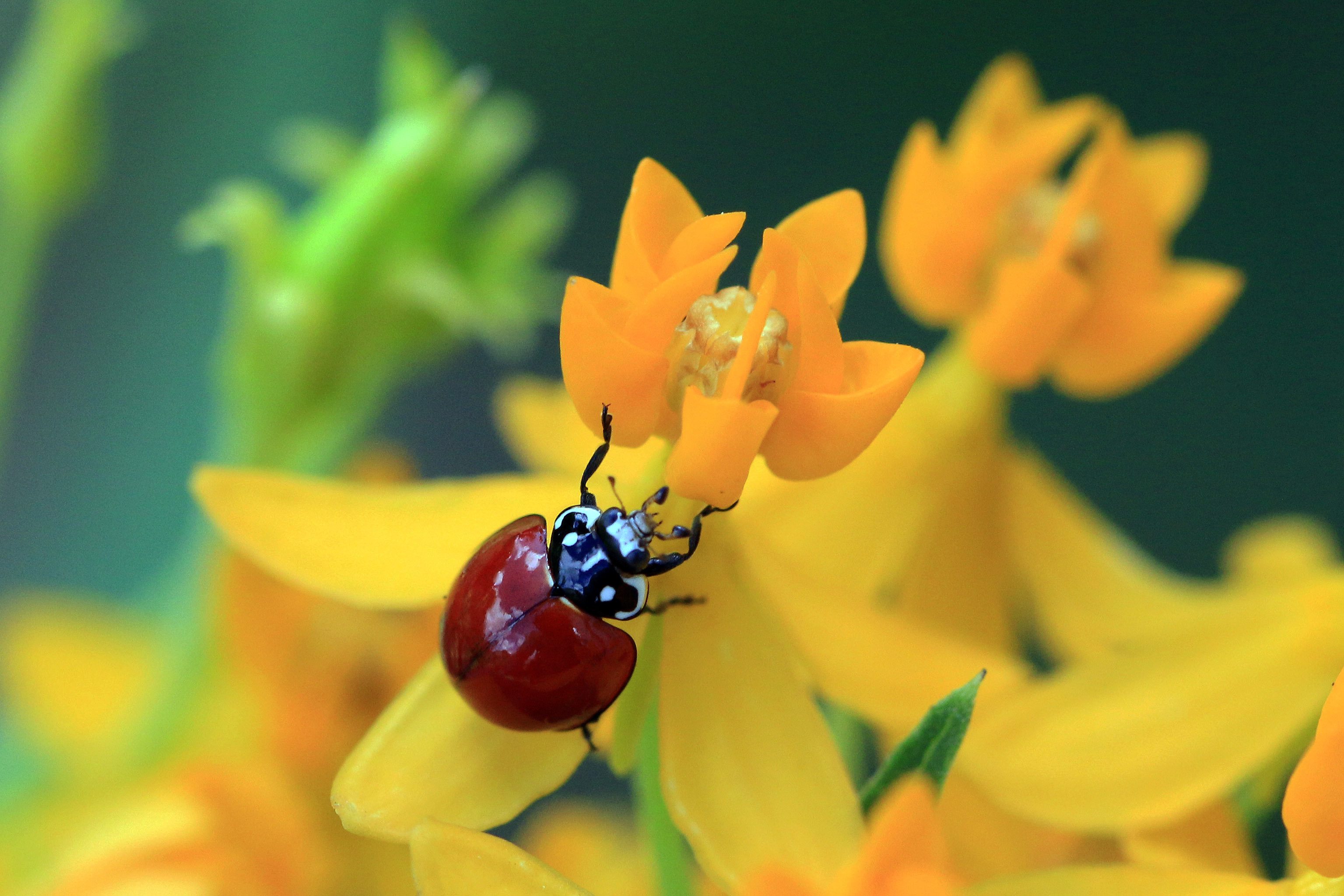 Ladybird (Cycloneda sanguinea), Grand Cayman